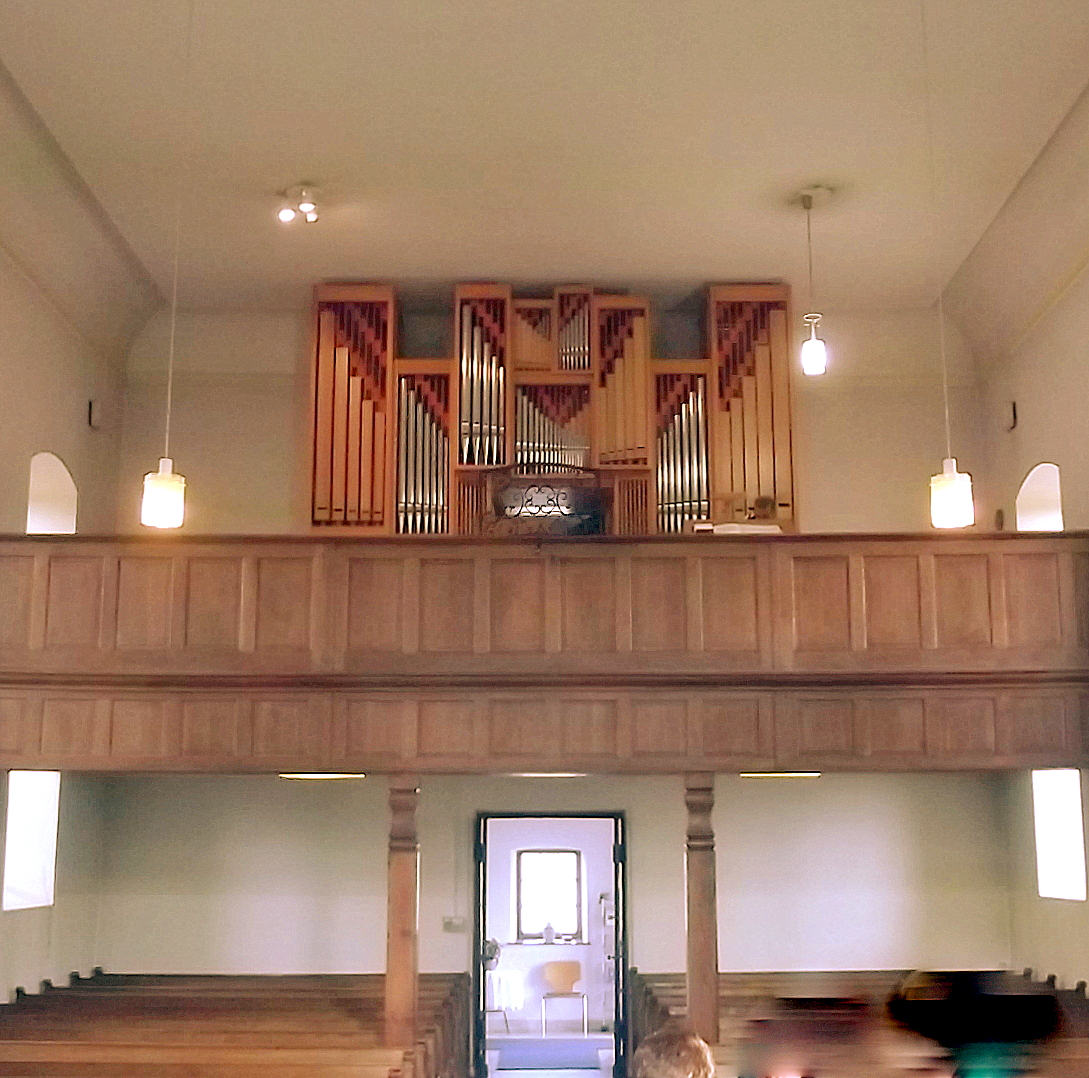 Interior of the protestant church in Uchtelfangen, Saarland, Germany